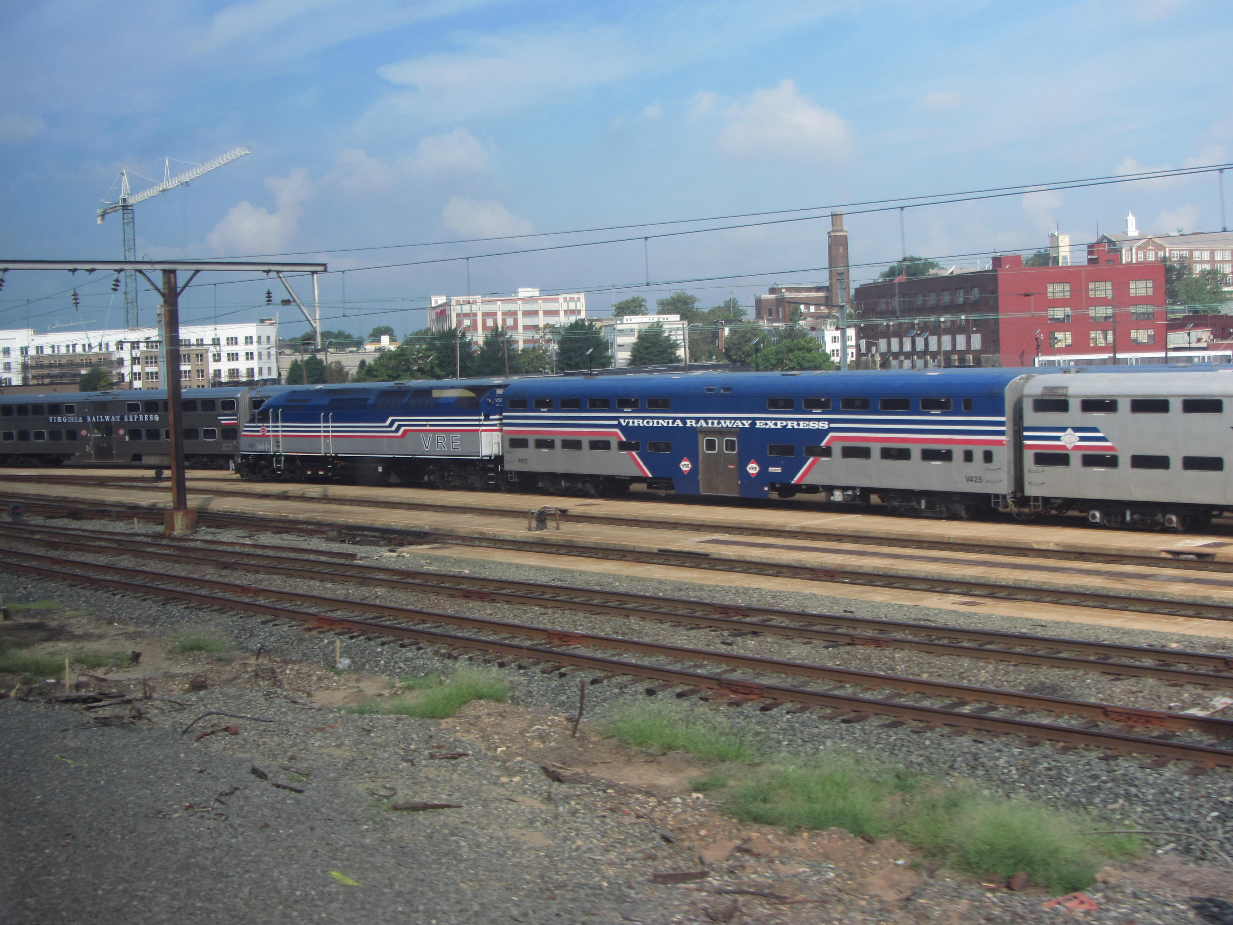 The blue car is a former C&NW Railway commuter car.